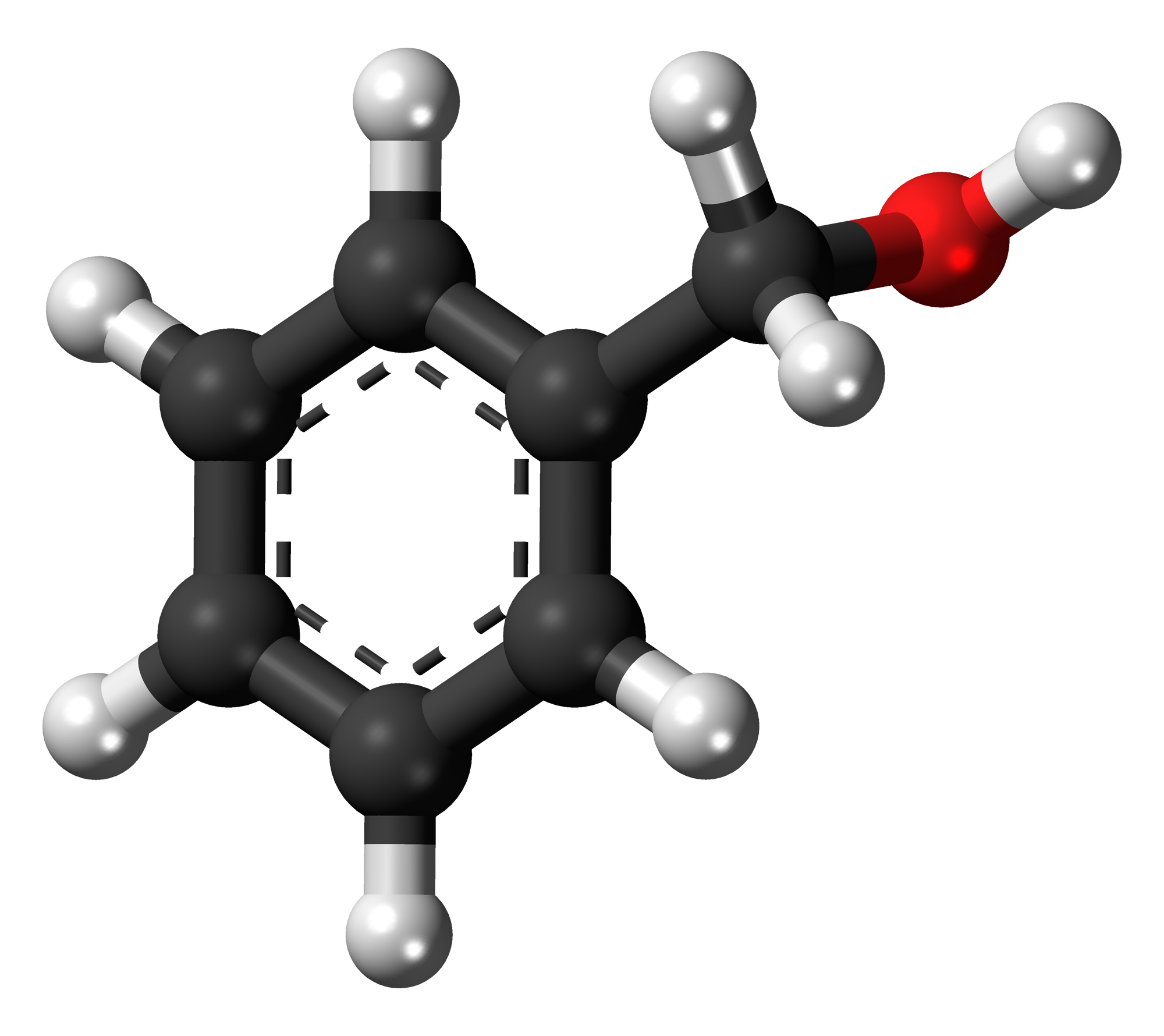 Ball-and-stick model of the benzyl alcohol molecule, a solvent. Colour code: Carbon, C: black Hydrogen, H: white Oxygen, O: red